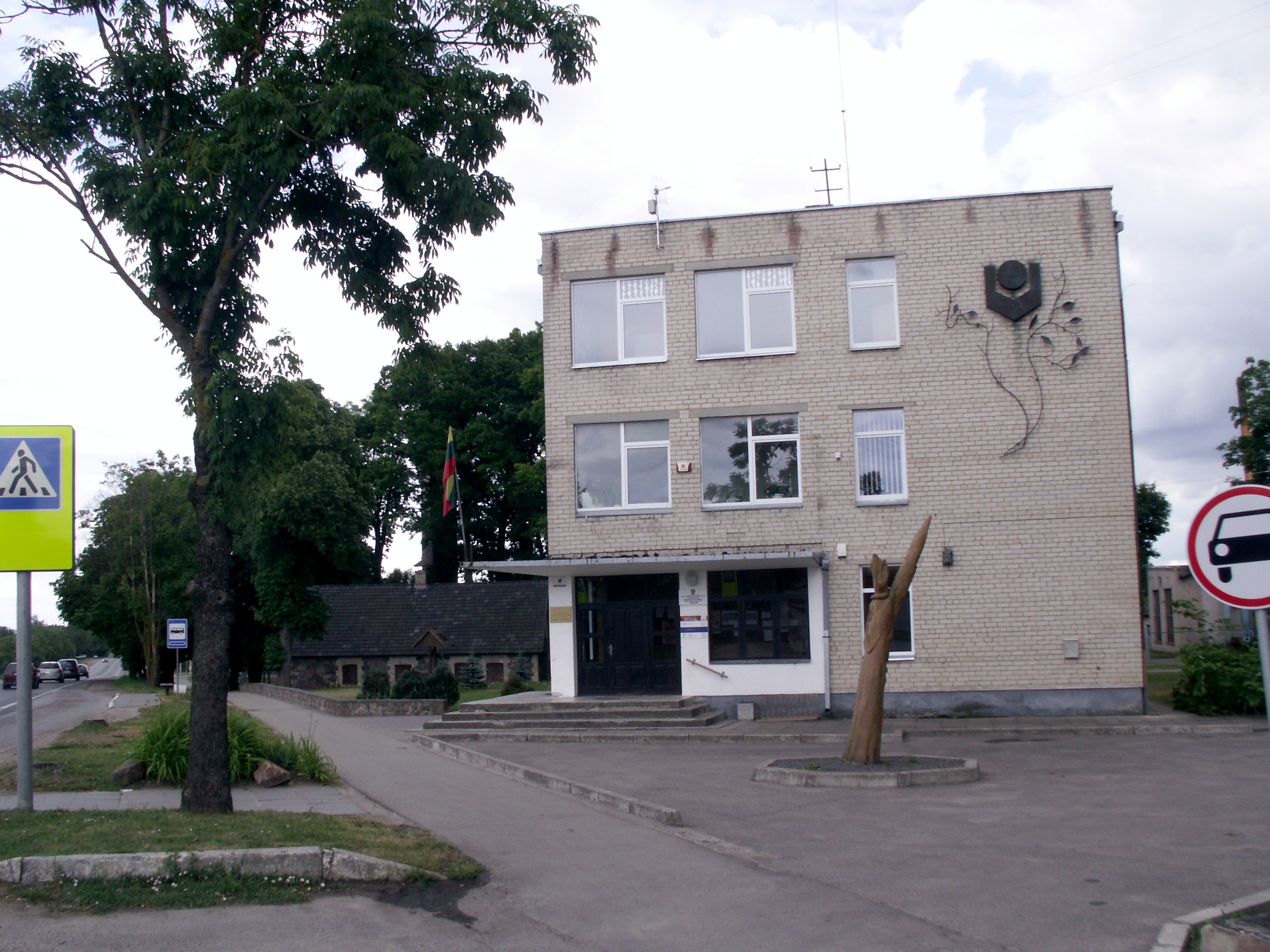 Kairiai elderate, Šiauliai district